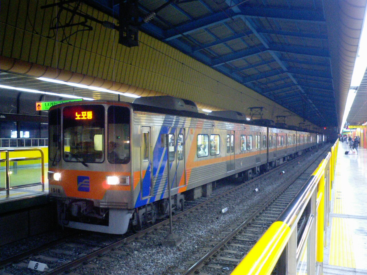 A train unit of Busan Subway Line 1